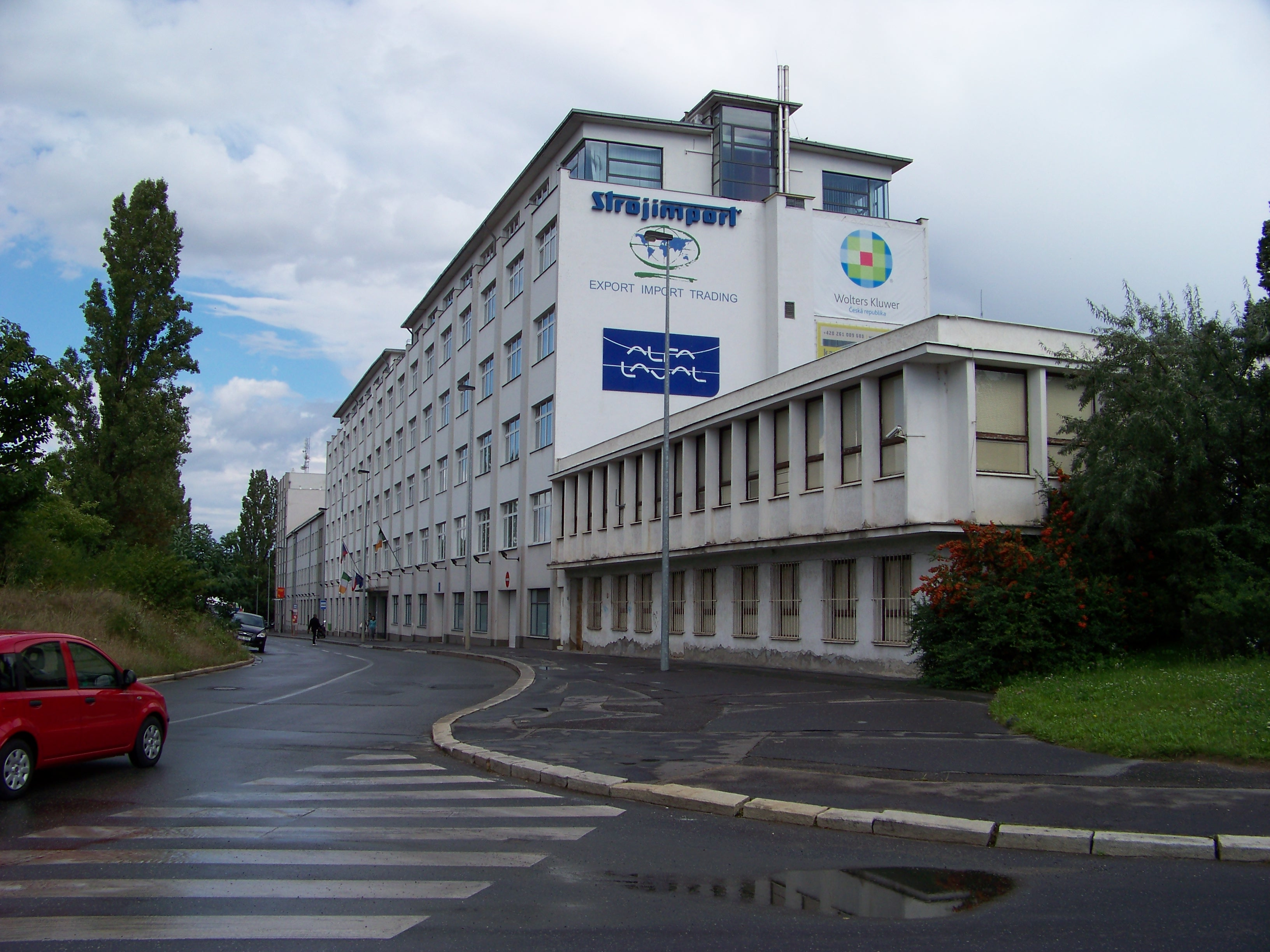 Prague 3-Strašnice, the Czech Republic. U nákladového nádraží street.